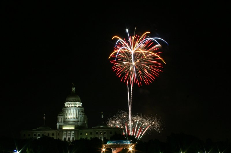 Taken By: Joe Webster (